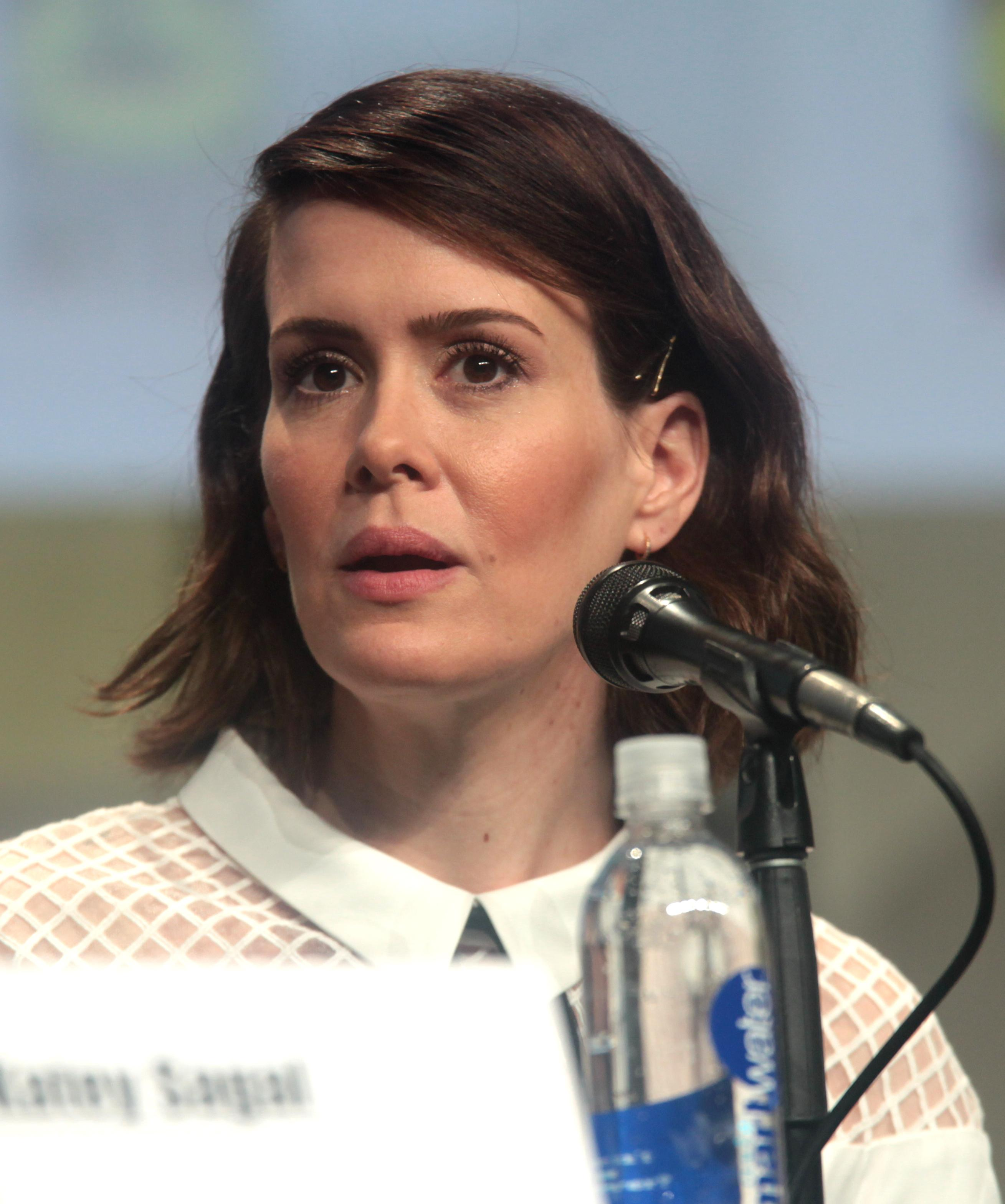 Sarah Paulson at the 2014 San Diego Comic Con International, for "Entertainment Weekly: Women Who Kick Ass", at the San Diego Convention Center in San Diego, California.